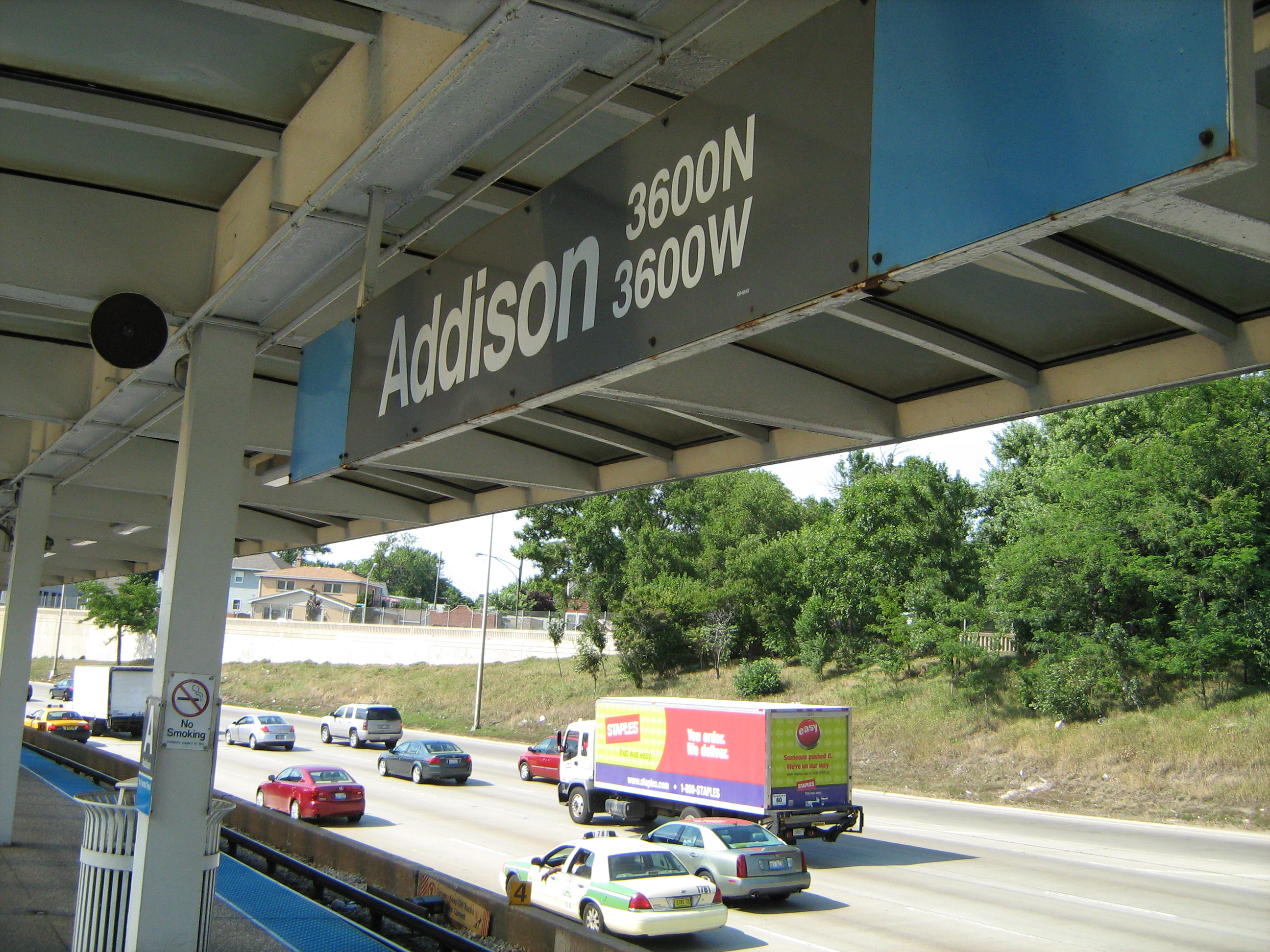 Addison CTA Blue Line Station